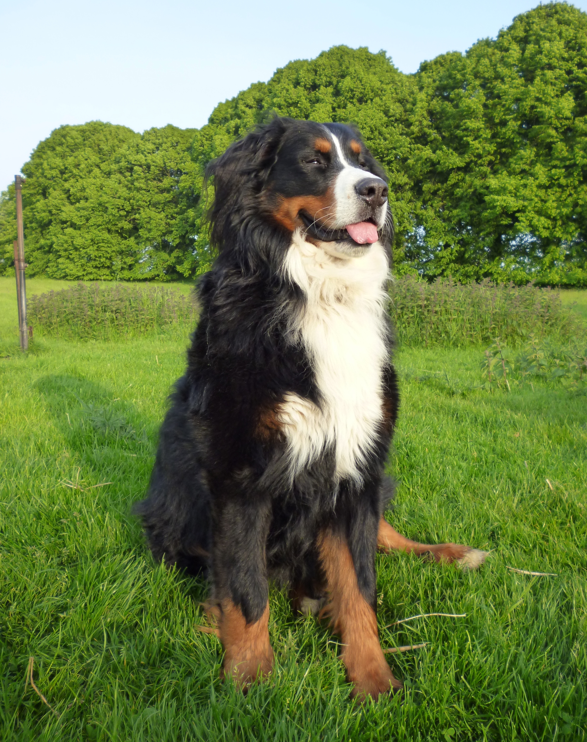 A sitting Bernese mountain dog in Morsan (Eure, Haute-Normandie, France).